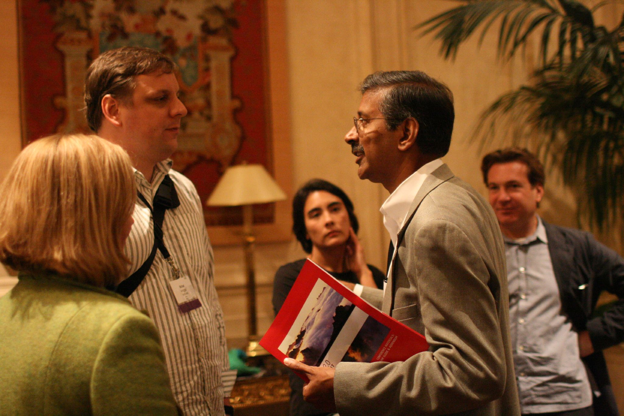 Ram Shriram with Jessica Guynn and Michael Arrington